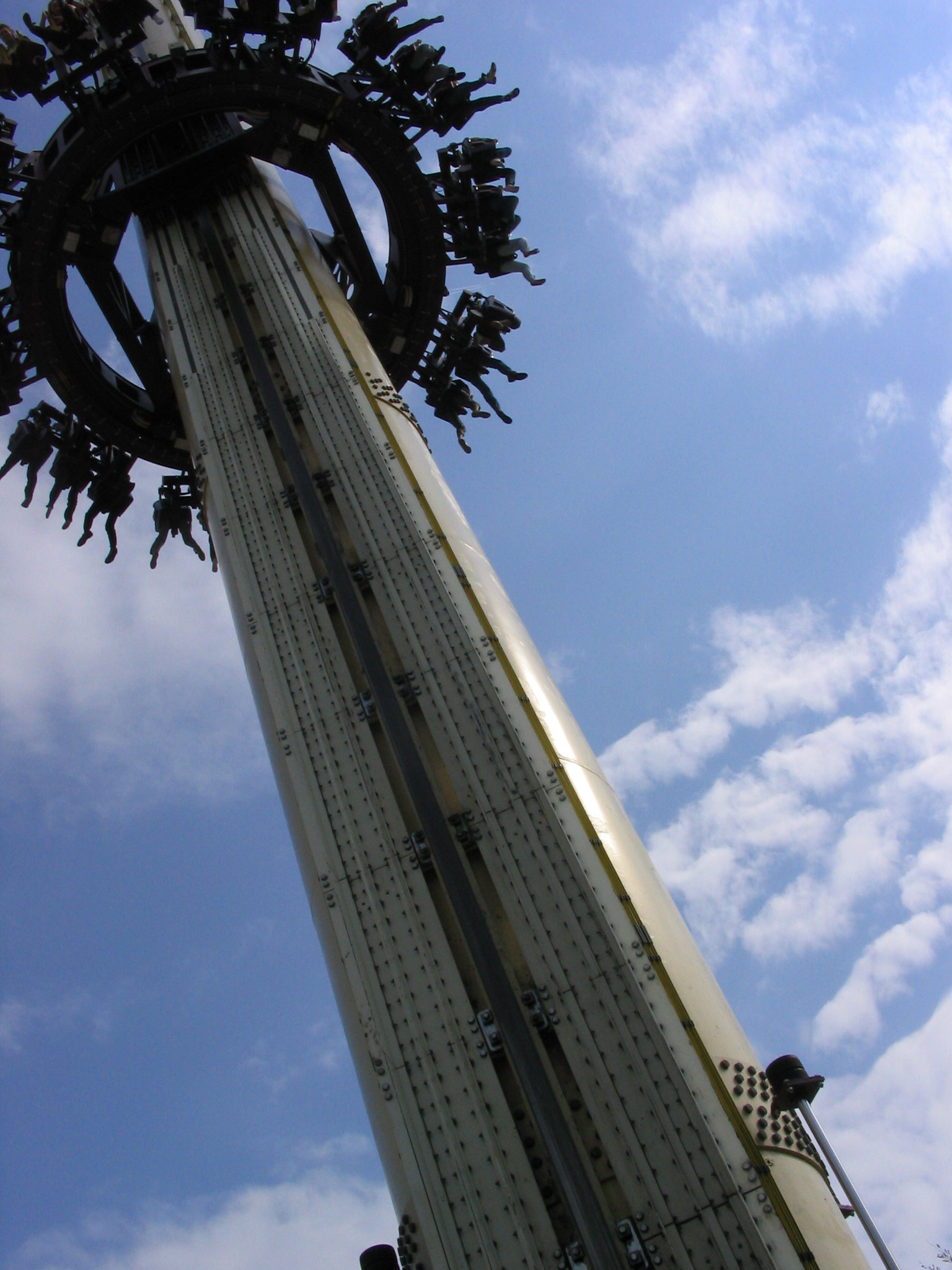 Brakes of Freefall Tower High Fall at Movie Park Germany